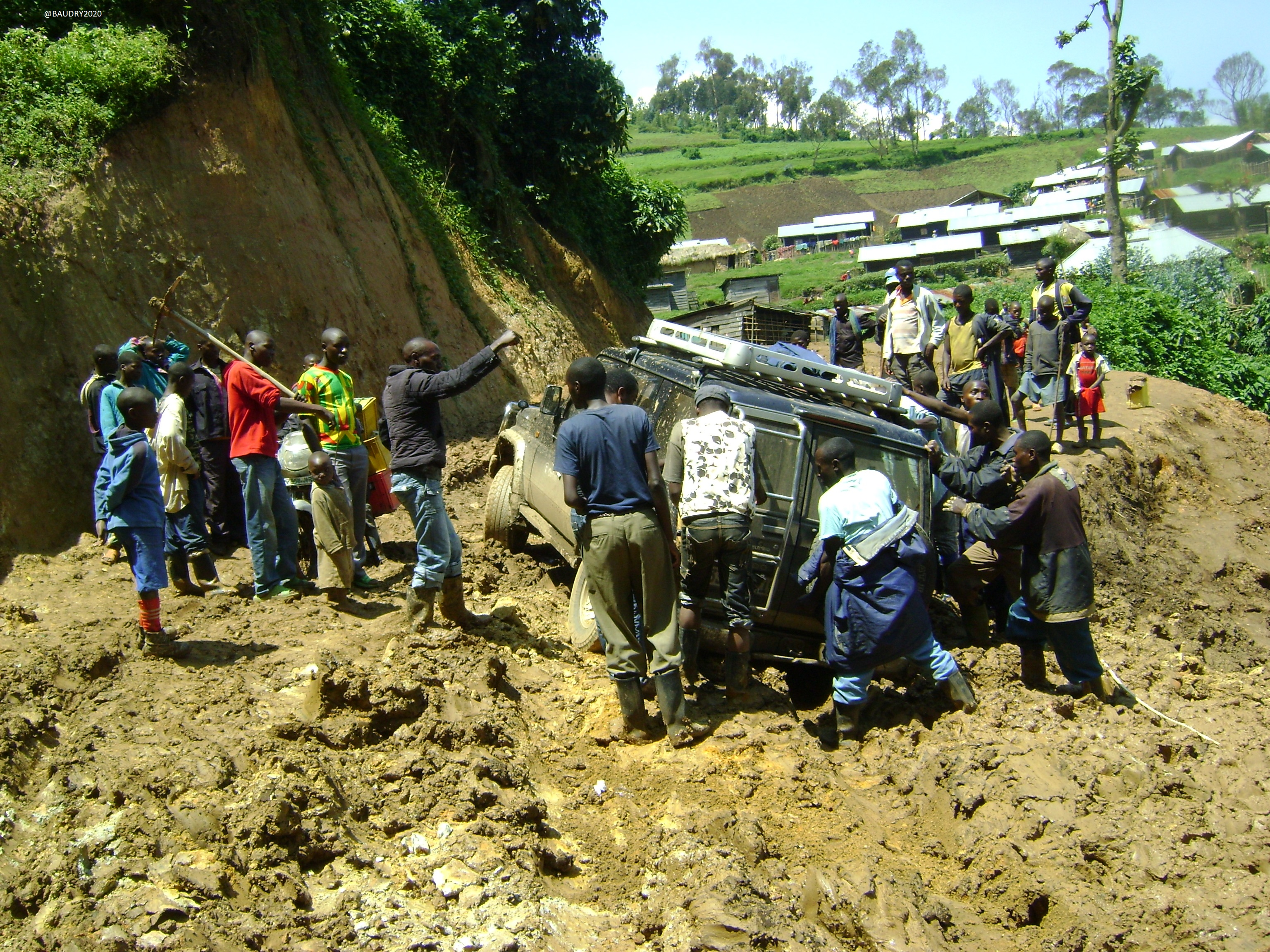 This is an image with the theme "Africa on the Move or Transport" from: Democratic Republic of the Congo